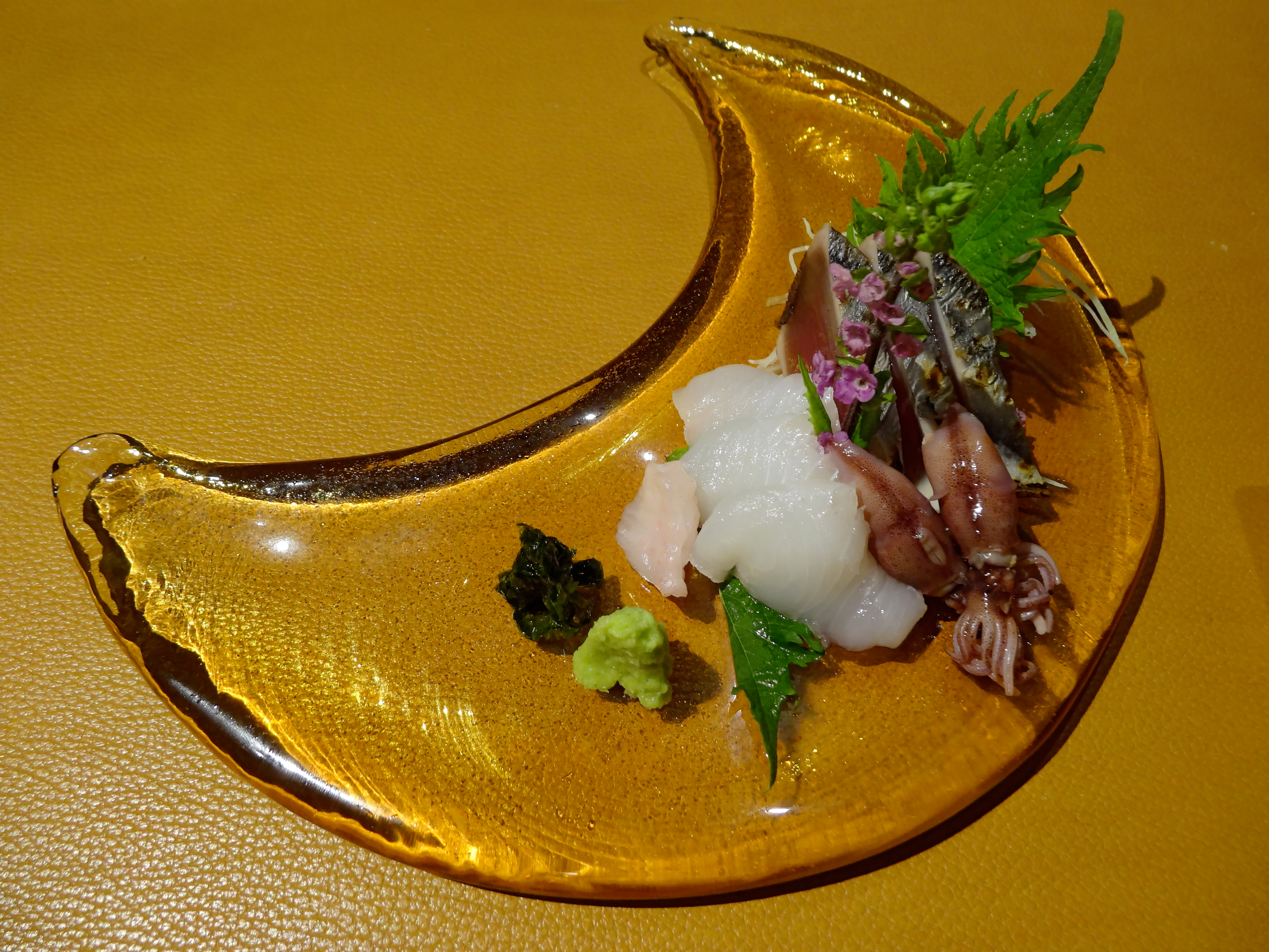 Nishimuraya Hotel Shogetsutei in Kinosaki Onsen town, Toyooka, Hyogo prefecture, Japan.